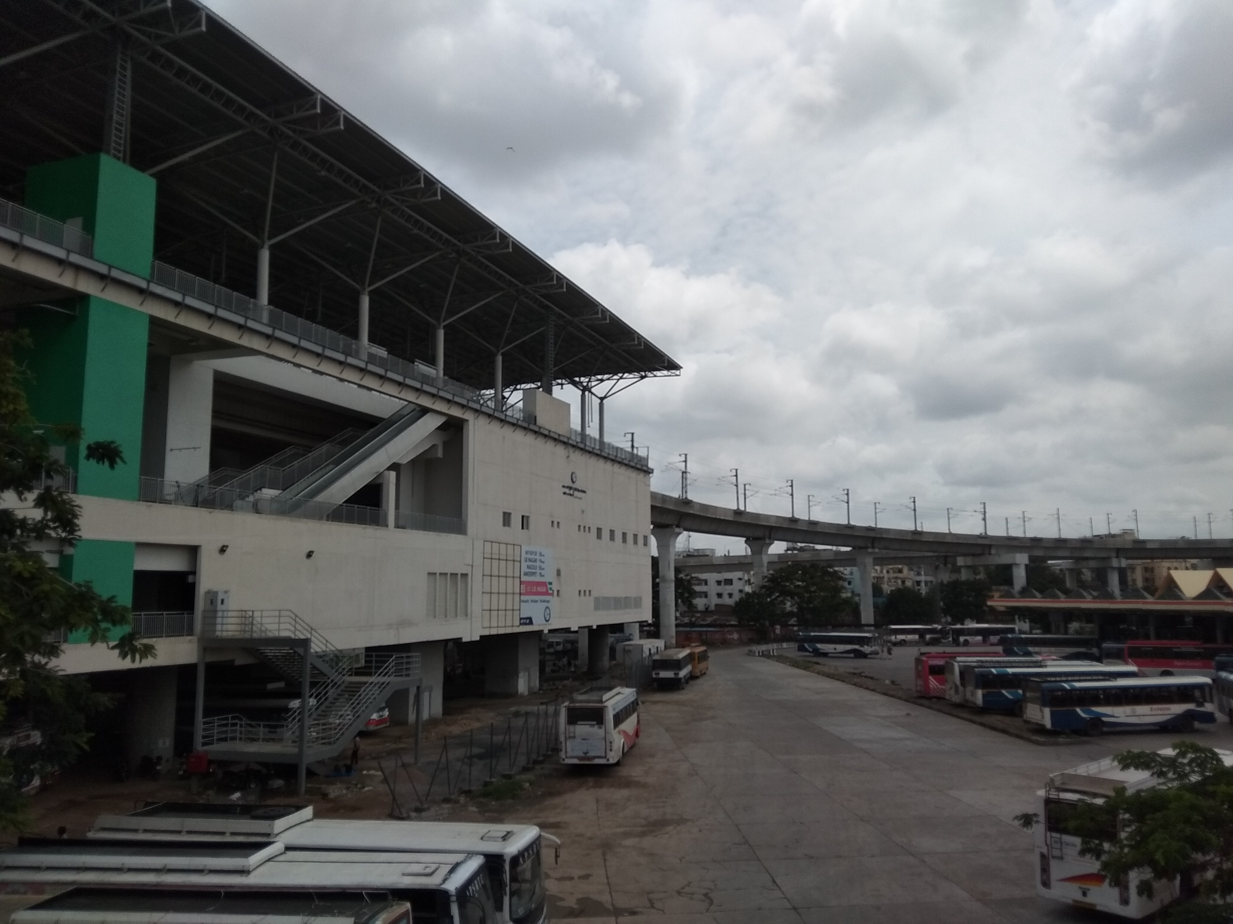 Mgbsmetrocorridor